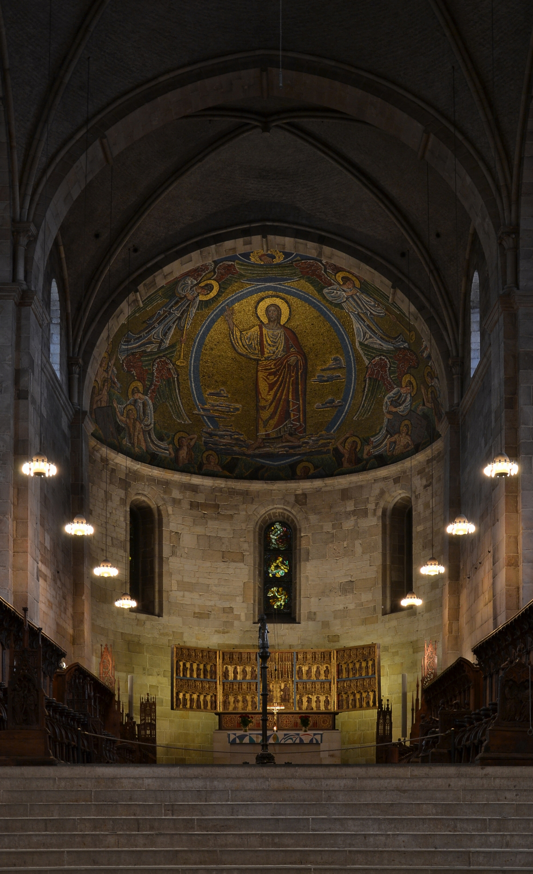 Cathedral in Lund, Sweden - main altar